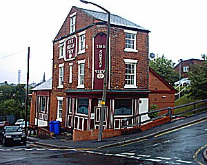 The Sheaf View pub in Heeley (Sheffield).